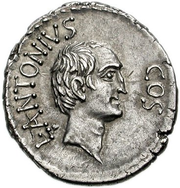 Coin of Lucius Antonius, the youngest brother of Marc Antony, and Consul in 41 BC. Ephesus mint, 41 BC